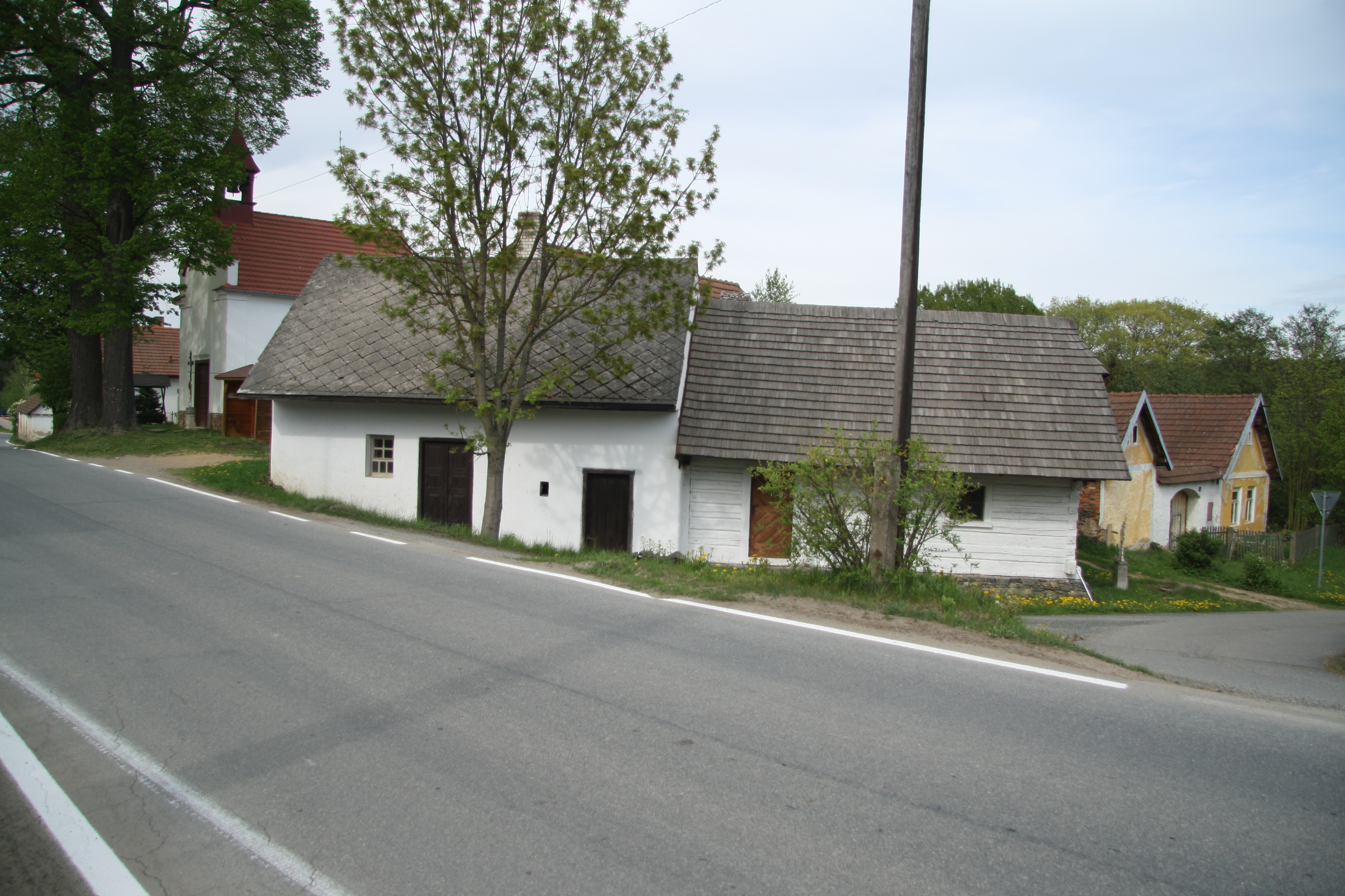 Front view of Cultural monument House no. 20 in Eš, Pelhřimov District.